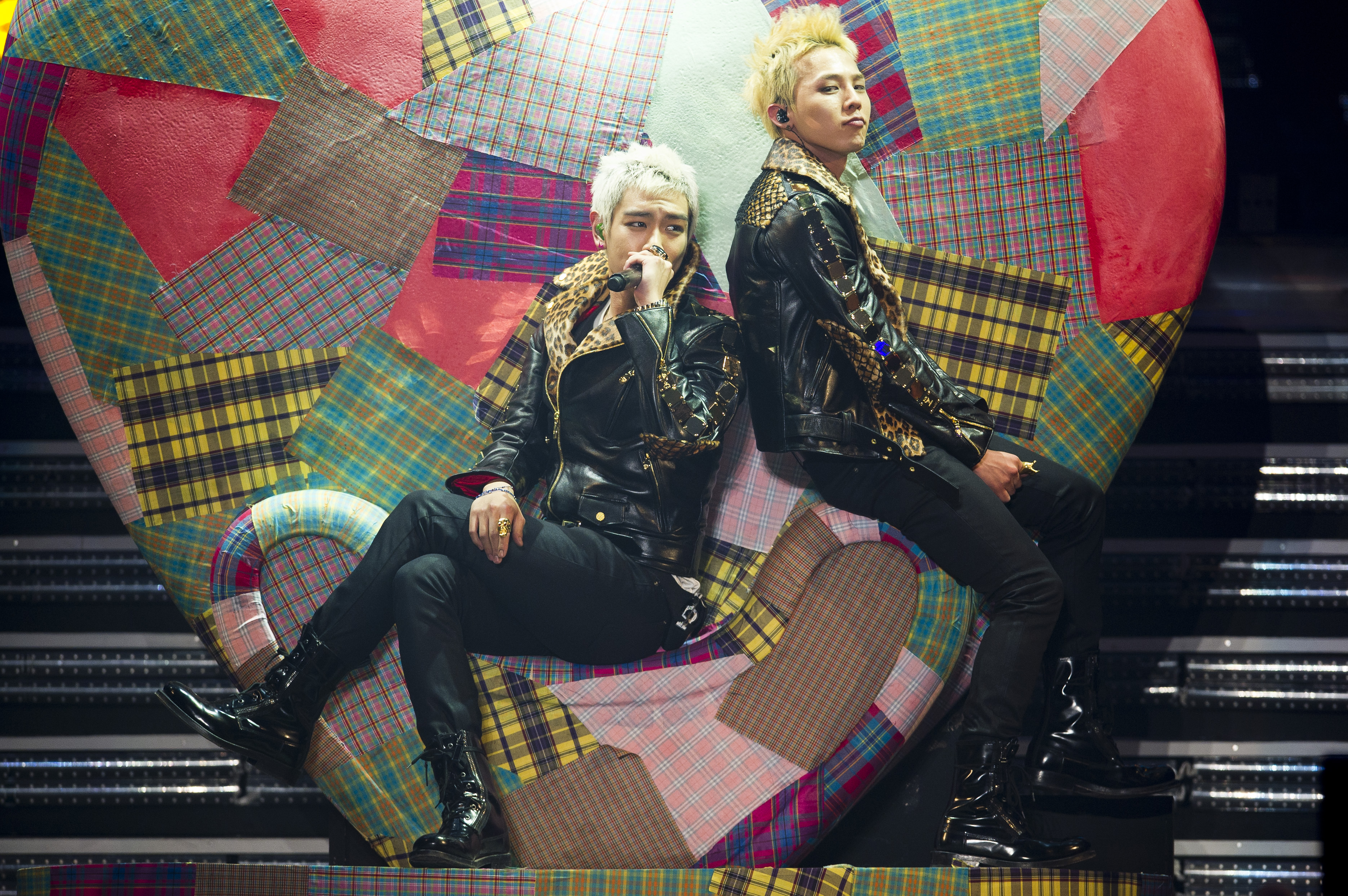 Hallyu, the Korean wave Hallyu refers to spread of Korean culture around the world. Big Bang, a Korean boy band who recently released another album has been promoting themselves not as Hallyu stars, but as artists.